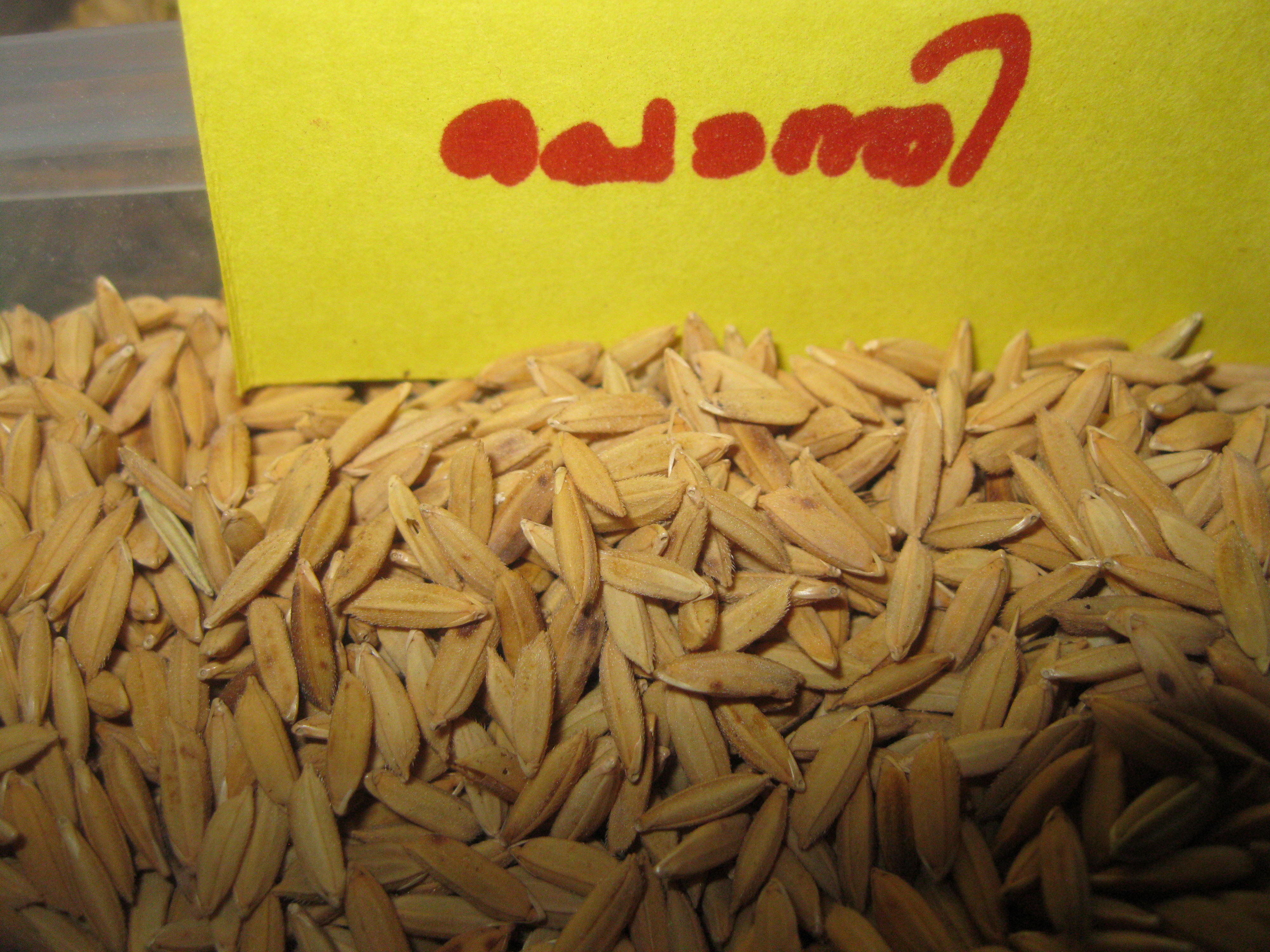 kerala paddy seed